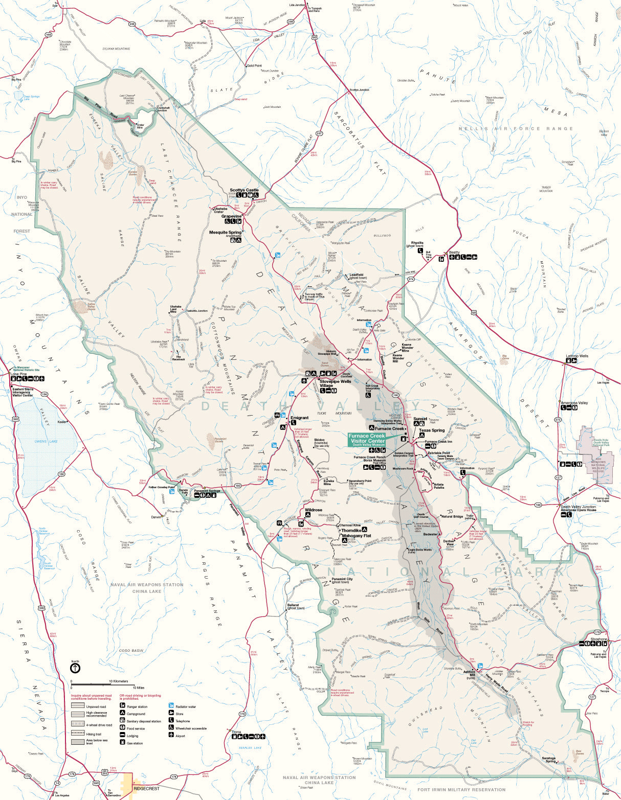 Death Valley,free map